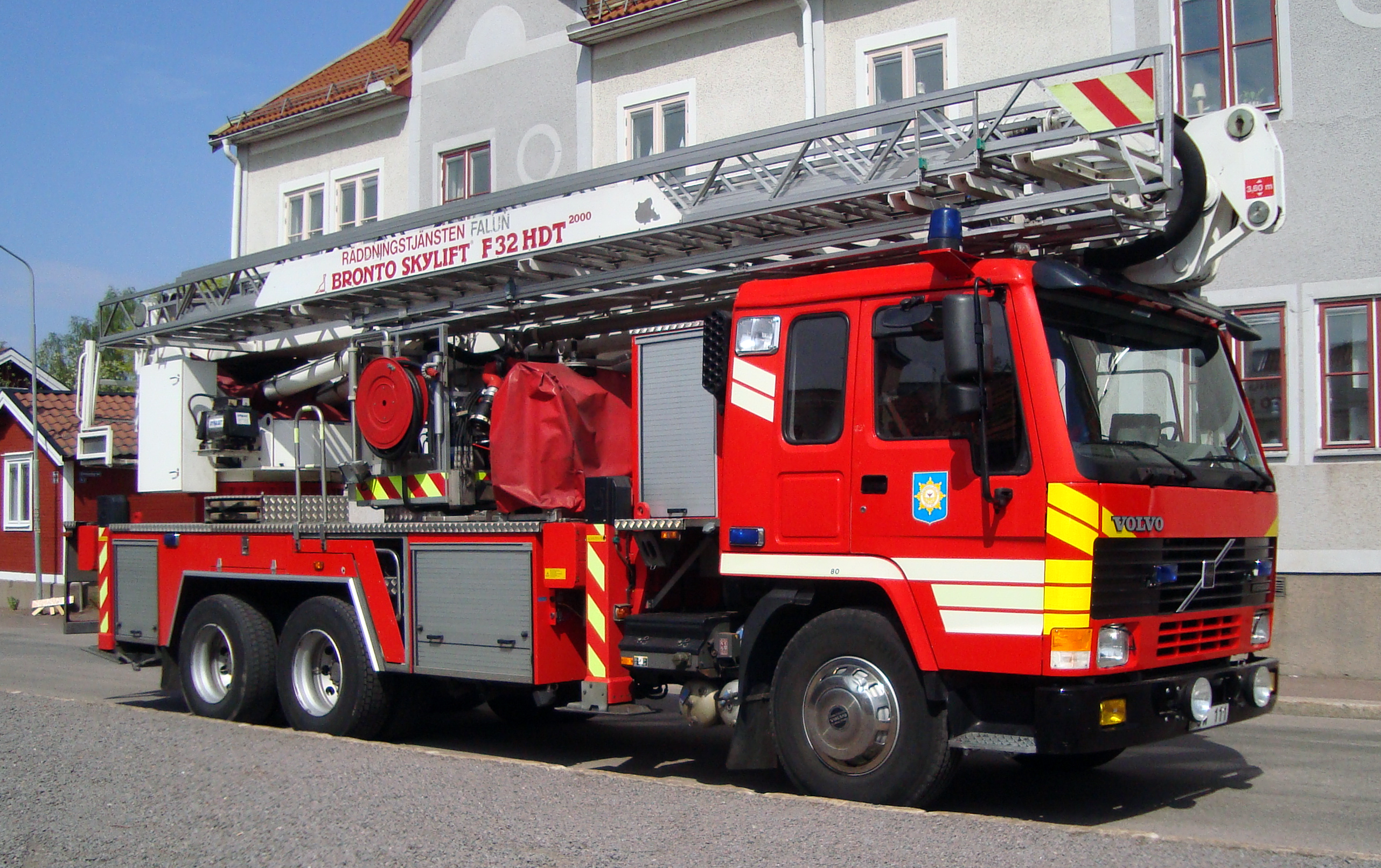 Volvo FL 10 fire engine of Räddningstjänsten Dala-Mitt, Falun, Sweden